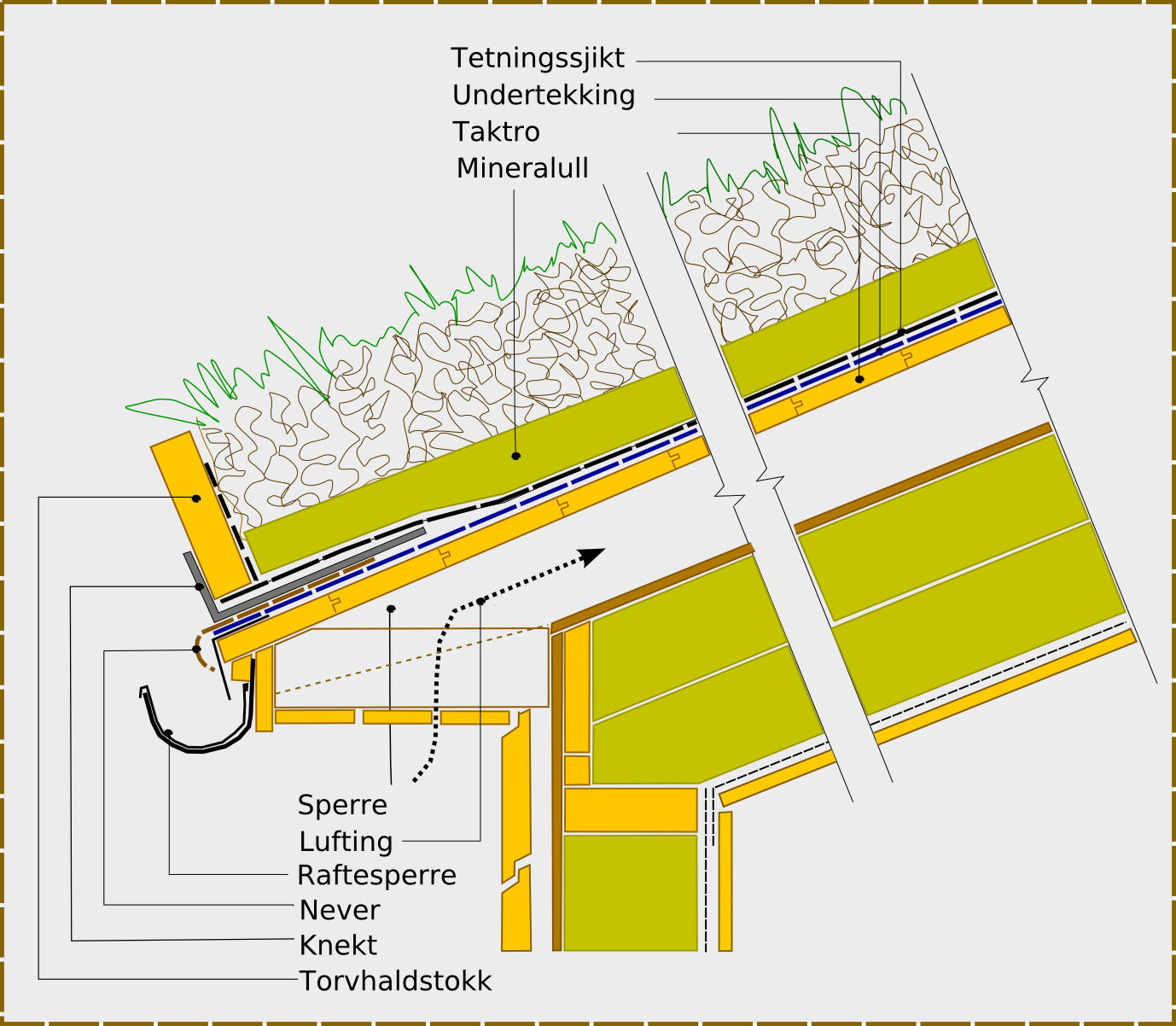 Turfed roof on modern framework construction. The turf is laid on a layer of insulating mineral wool.